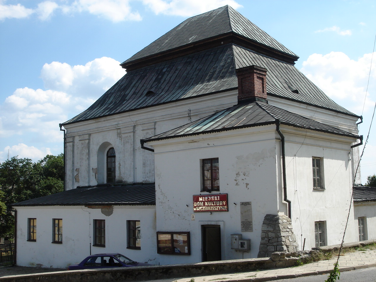 Synagogue in Szczebrzeszyn, nowadays community centre